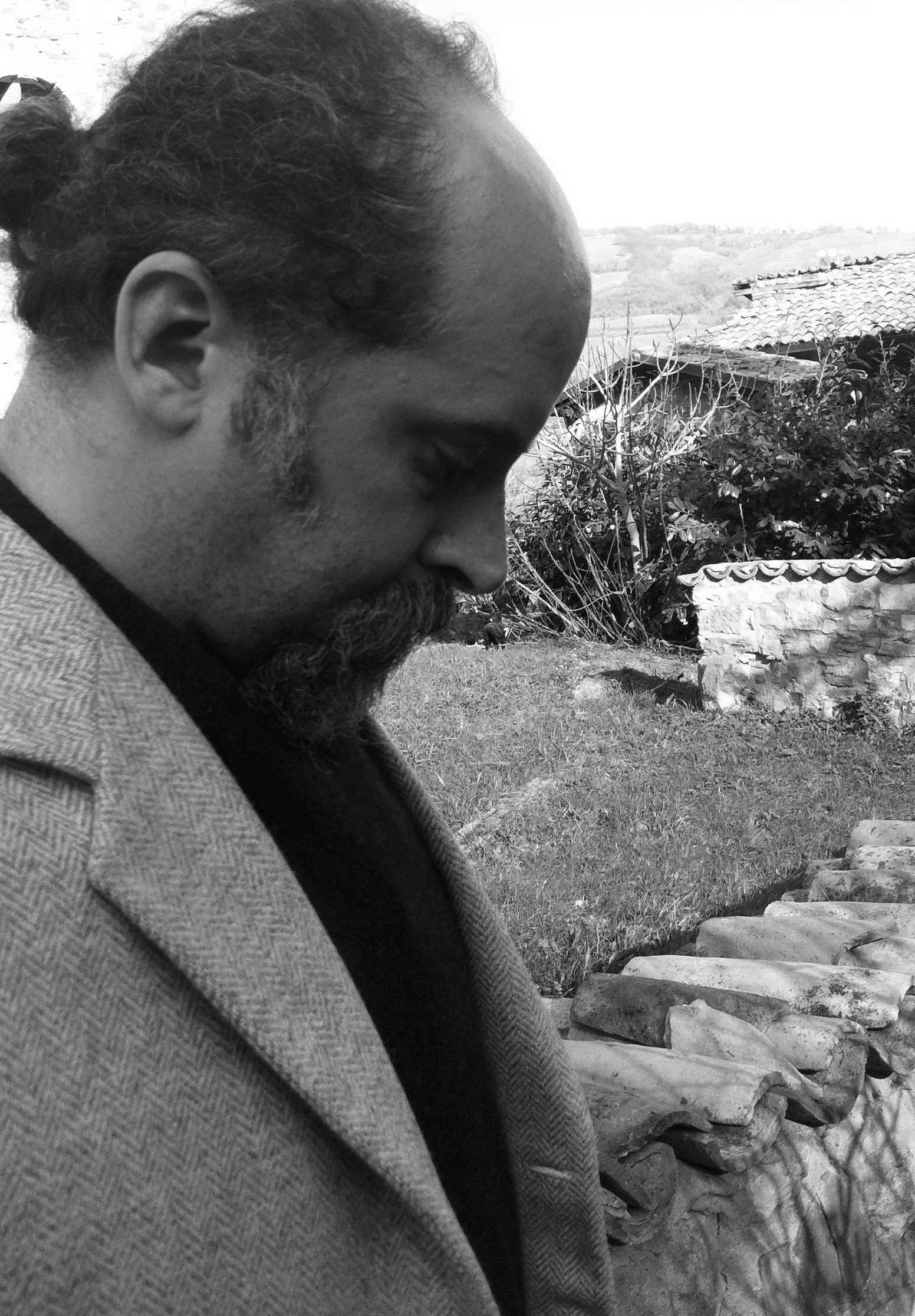 A photo of Francesco Benozzo